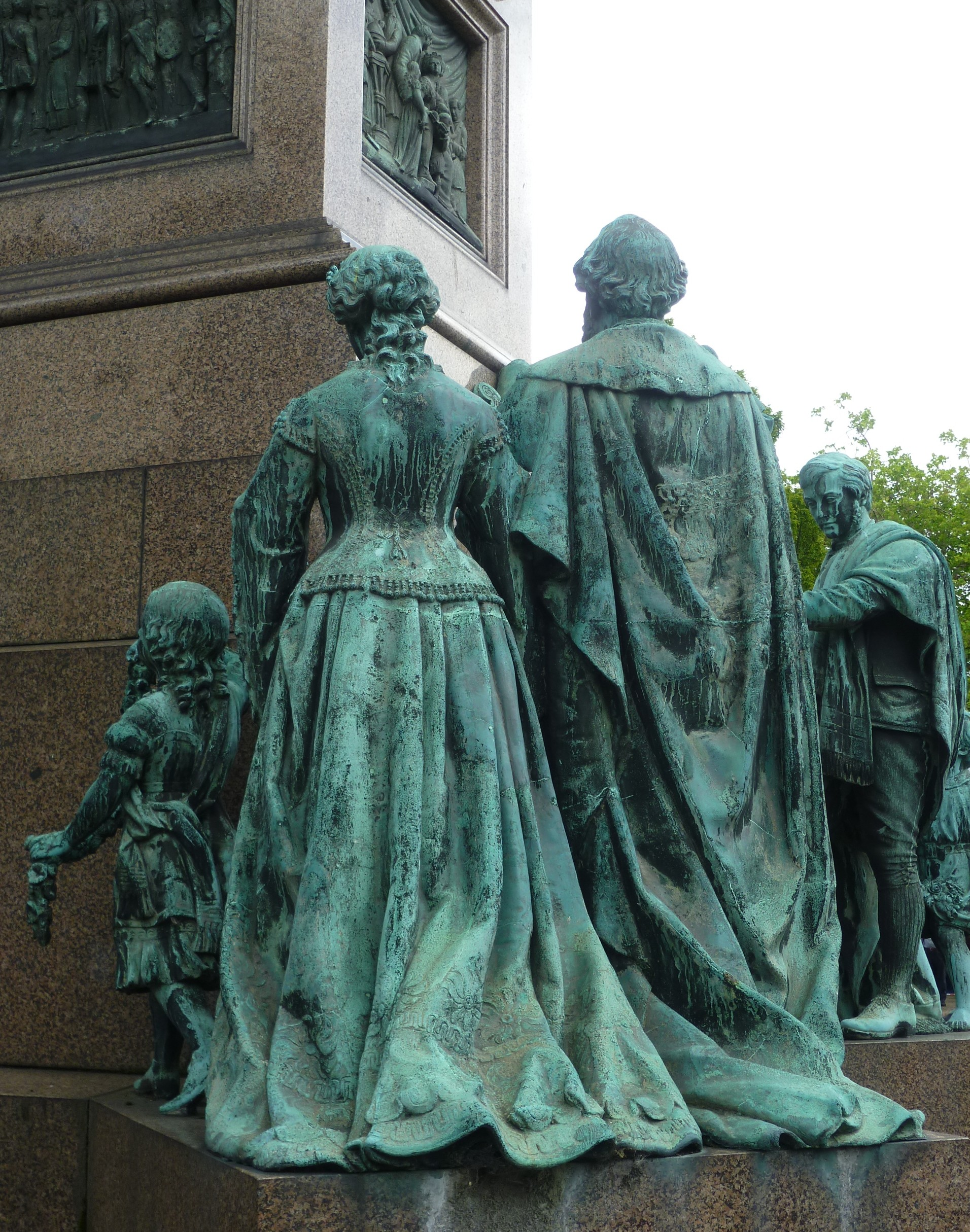 Figures by William Brodie representing 'The Nobility' on the Prince Albert Memorial, Edinburgh